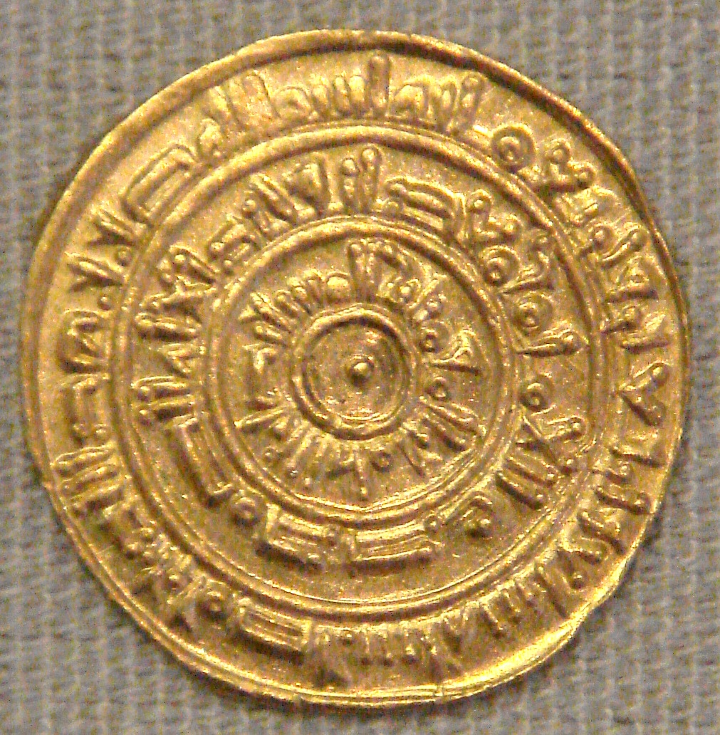 Calif_al_Mustansir_Misr_1055